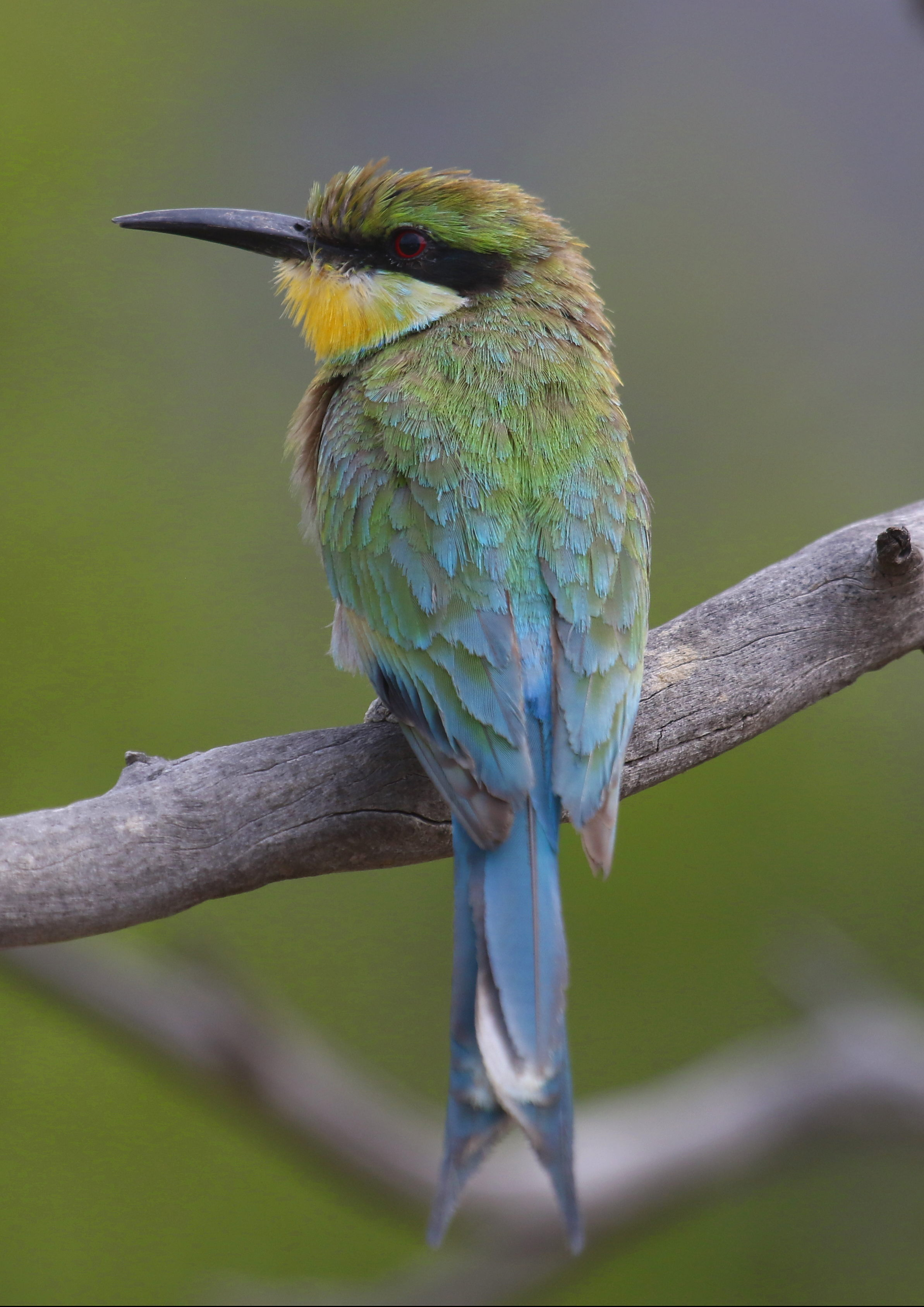 Swallow-tailed bee-eater, Merops hirundineus, at Marakele National Park, Limpopo, South Africa